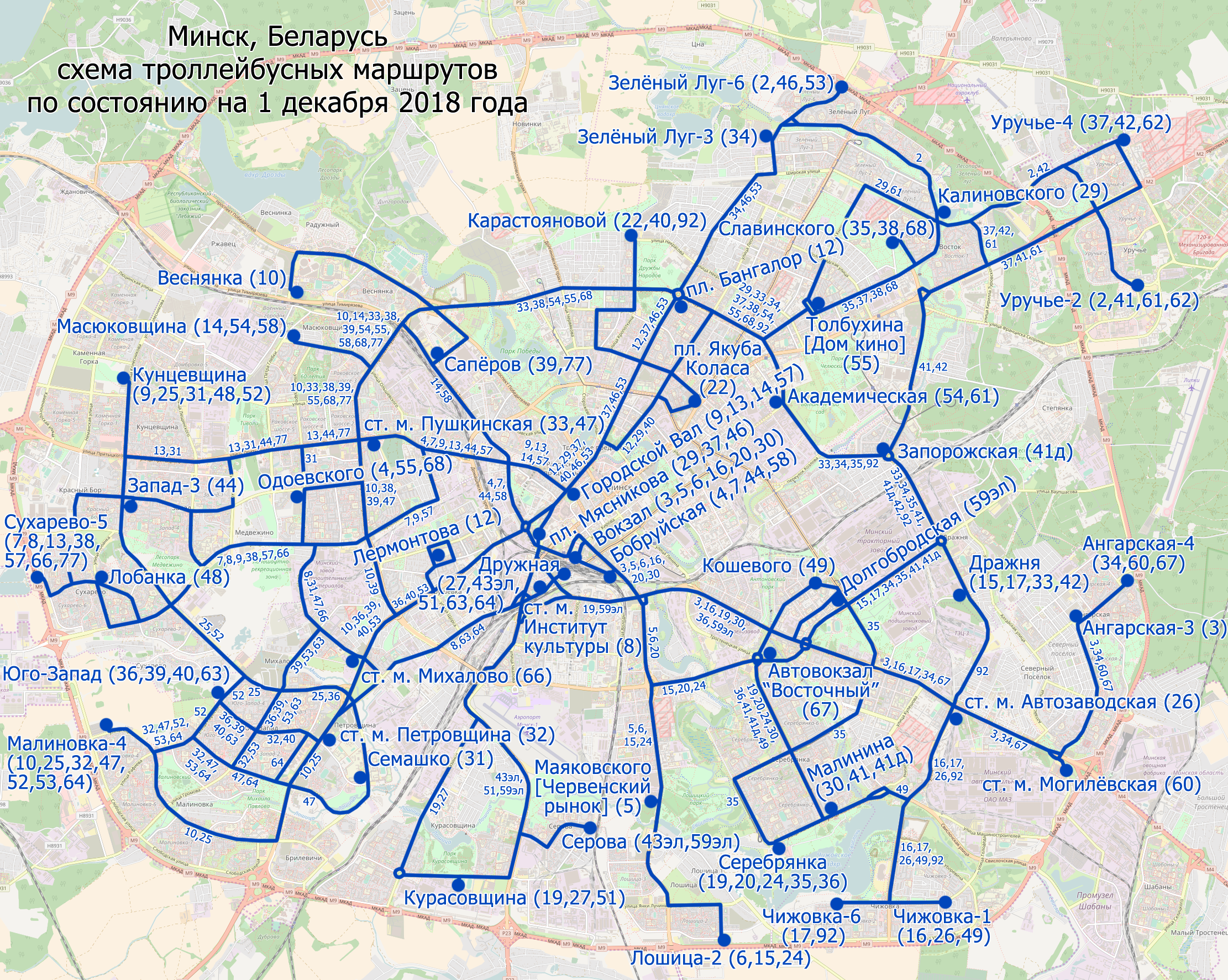 Trolleybus map of Minsk (Belarus), December 2018. Data are verified with the Minsktrans official site This map may be incomplete, and may contain errors. Don't rely solely on it for navigation.